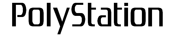 PolyStation's Logo